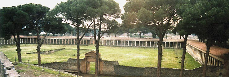 Personal photo, 1999 Pompeii gymnasium seen from the top of the stadium wall. The depression center left was filled with water and used for swimming practice and mock naval battles. To the right (partially obscured by a tree trunk) is a line of carbonized tree stumps, the remains of the trees (each one hundreds of years old) of the palaestra burned in the volcanic eruption of 79. Between them and the colonnade, a line of saplings recently planted as replacement.